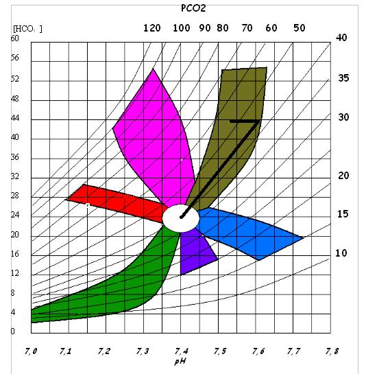 metabolic alkalosys and respiratory compensation.